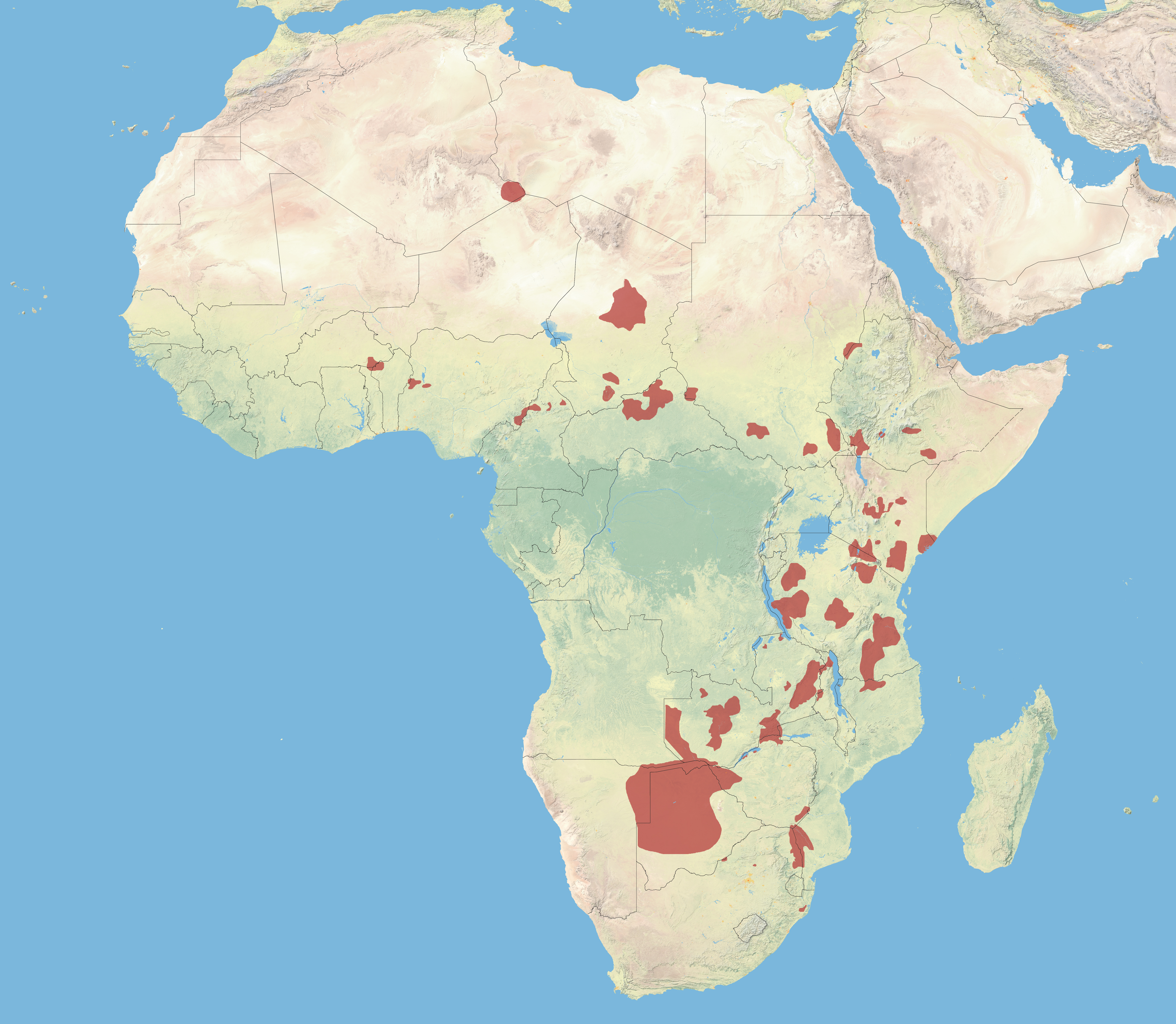 The Distribution of the African Wild Dog, according to the IUCN